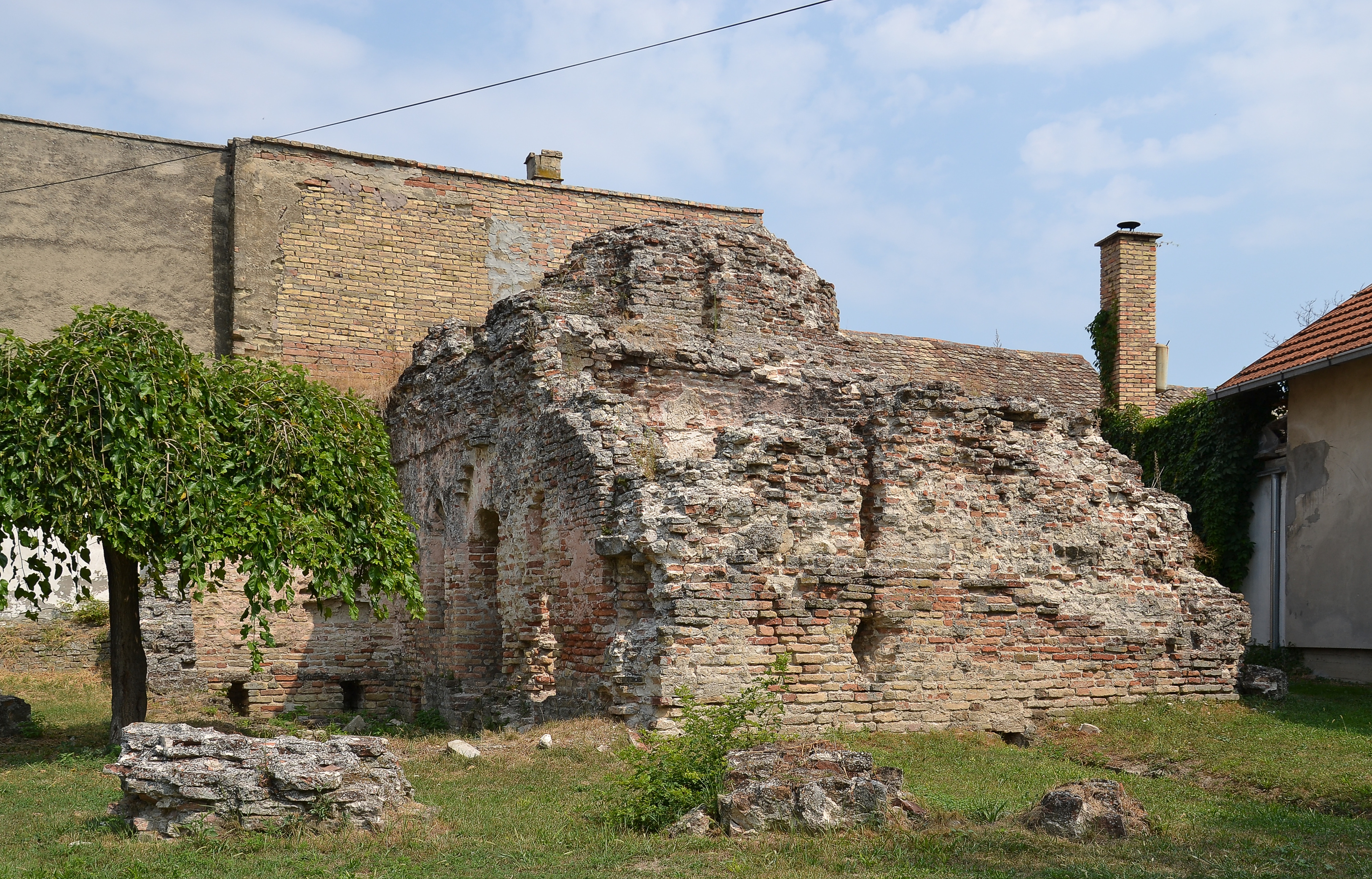 Ruins of turkish bath (Hammam) in Bač, Vojvodina, Serbia